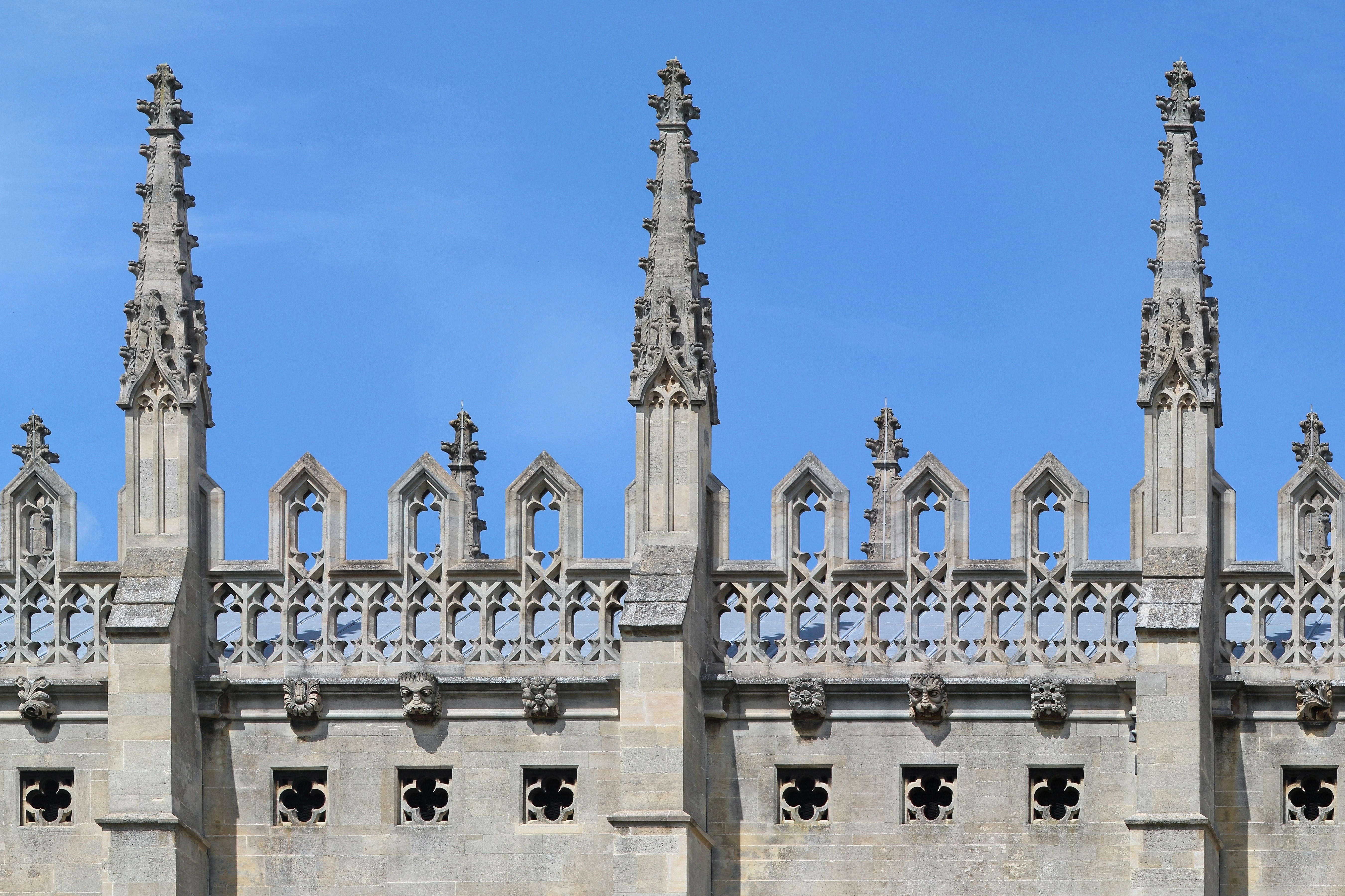 Close-up shot of pinnacles on King's College Chapel, Cambridge.